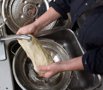 Flour is washed until only the protein remains when Seitan is made from wheat flour, milled at the Annville flouring mill.